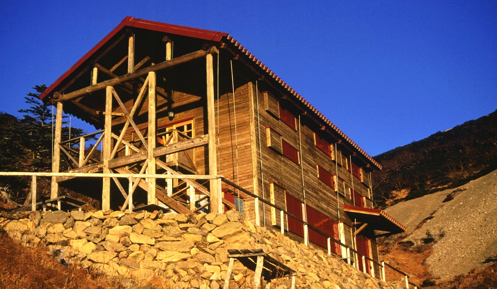 Mount Chause hut in Akaishi Mountains, Japan.